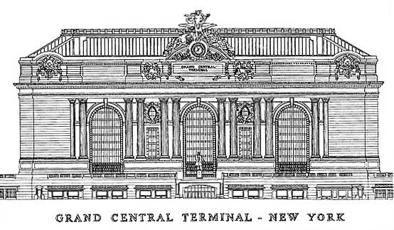 Grand Central Terminal of New York, built in 1903. The building was designed by Charles A. Reed & Allen H. Stem.